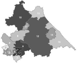 i created this image out of a cartographic map.